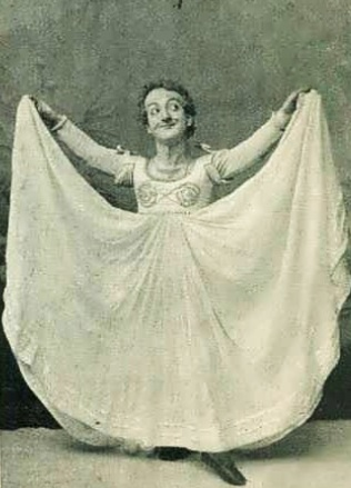 The English music hall comedian Little Tich in female costume during a scene from The Serpentine Dance during the 1890s.